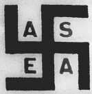 The logo of ASEA prior to 1933.